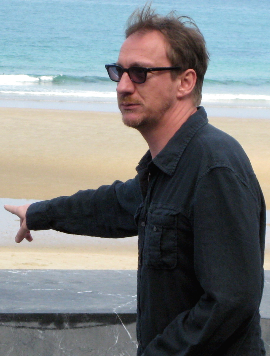 David Thewlis at San Sebastian Filmfestival 2008 presenting "The Boy in the Striped Pyjamas" directed by Mark Herman